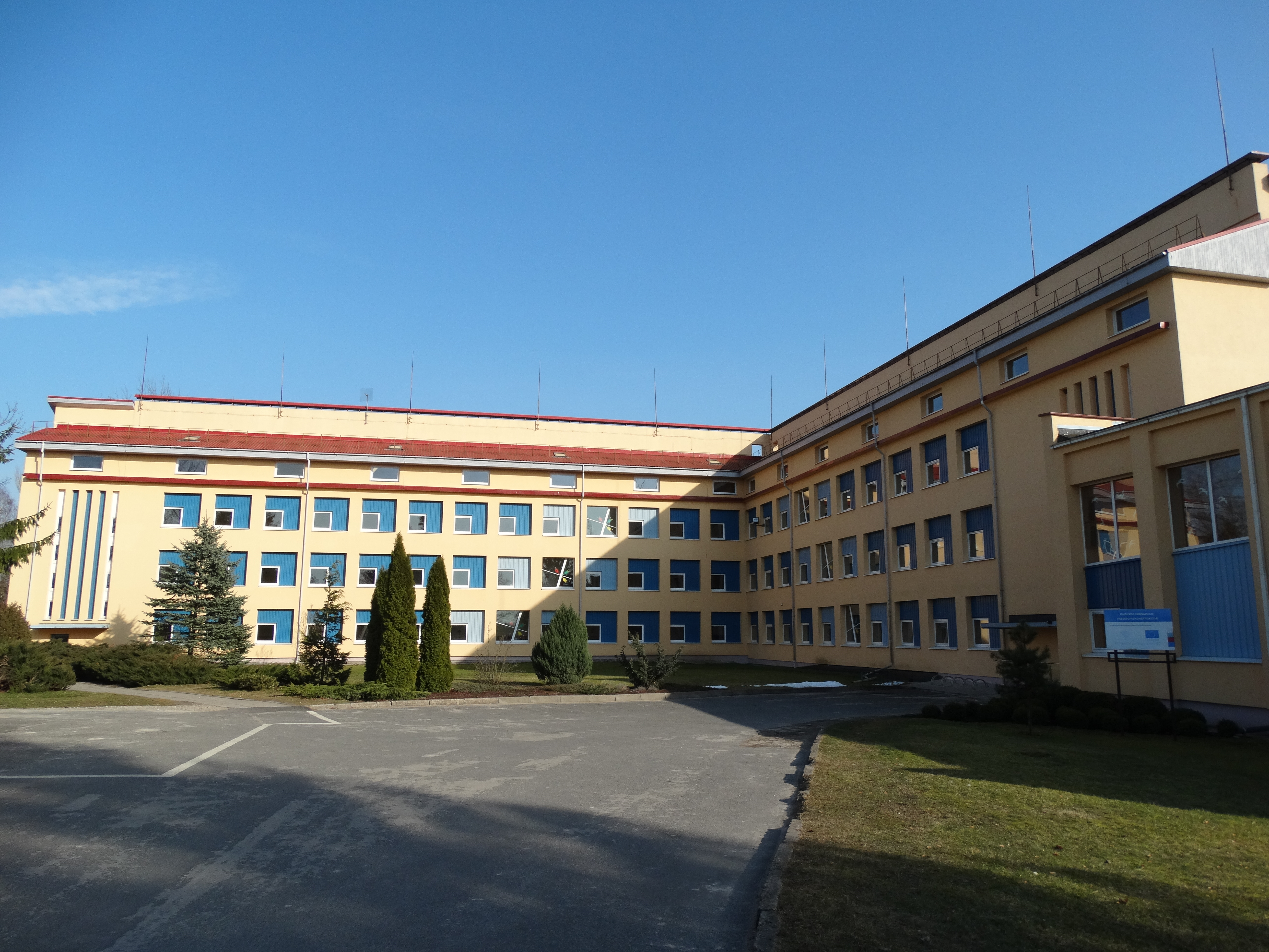 Gymnasium, Raguva, Panevėžys district, Lithuania